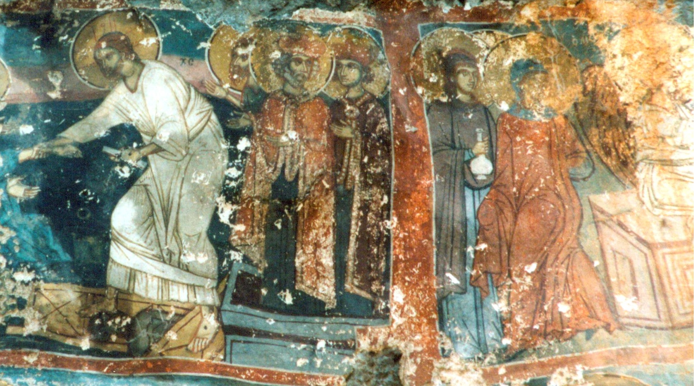 Saint Nicholas in Lyumanishta Fresco